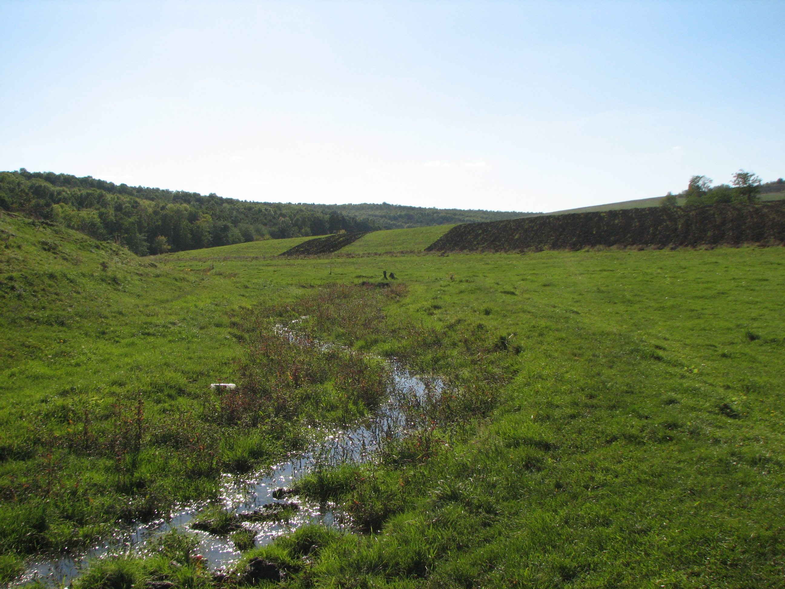 The headwater of the Tylihul River in Kotovsk Raion, Odessa Oblast, Ukraine